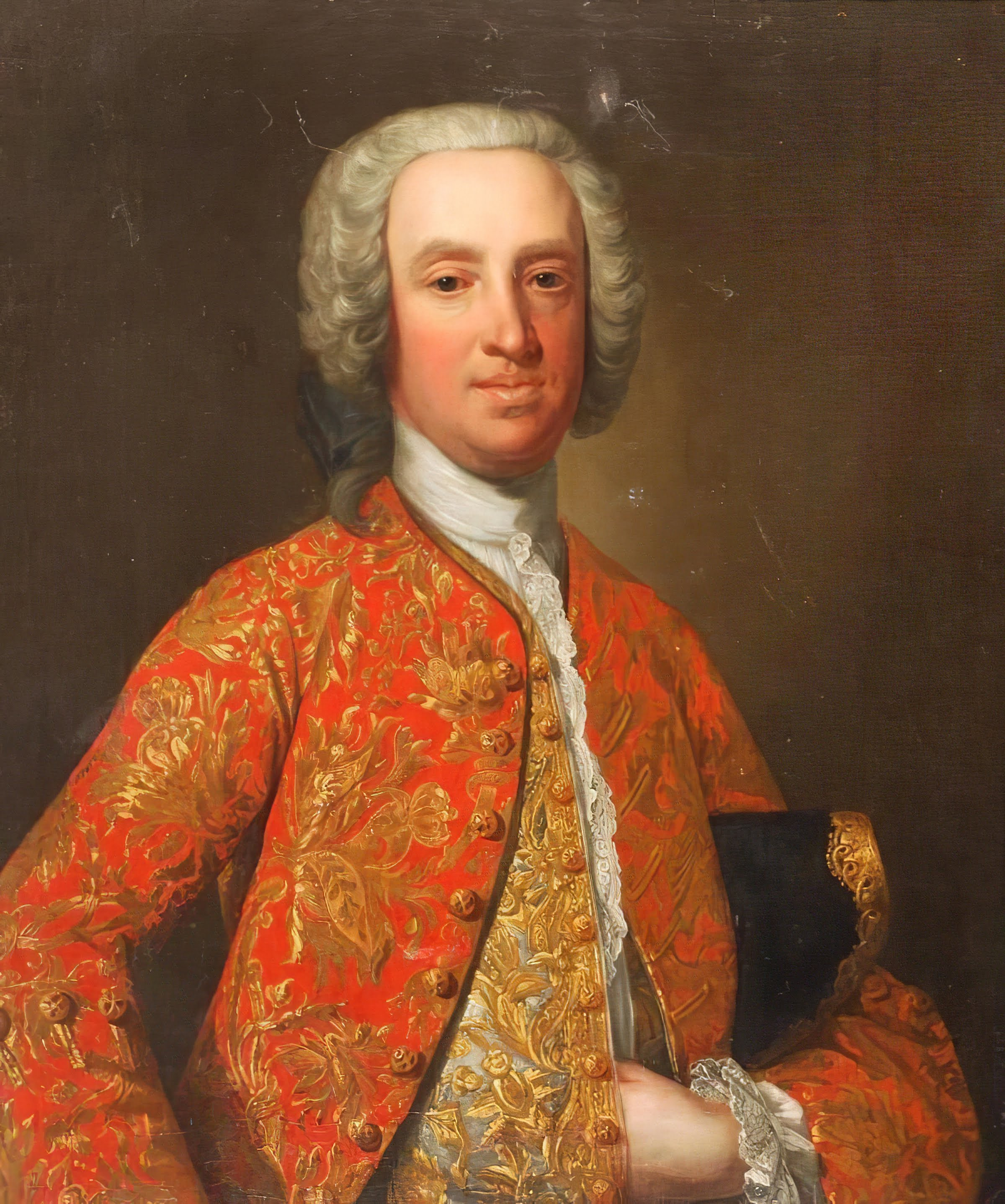 18th century Scottish peer, 4th Baronet of Kelhead